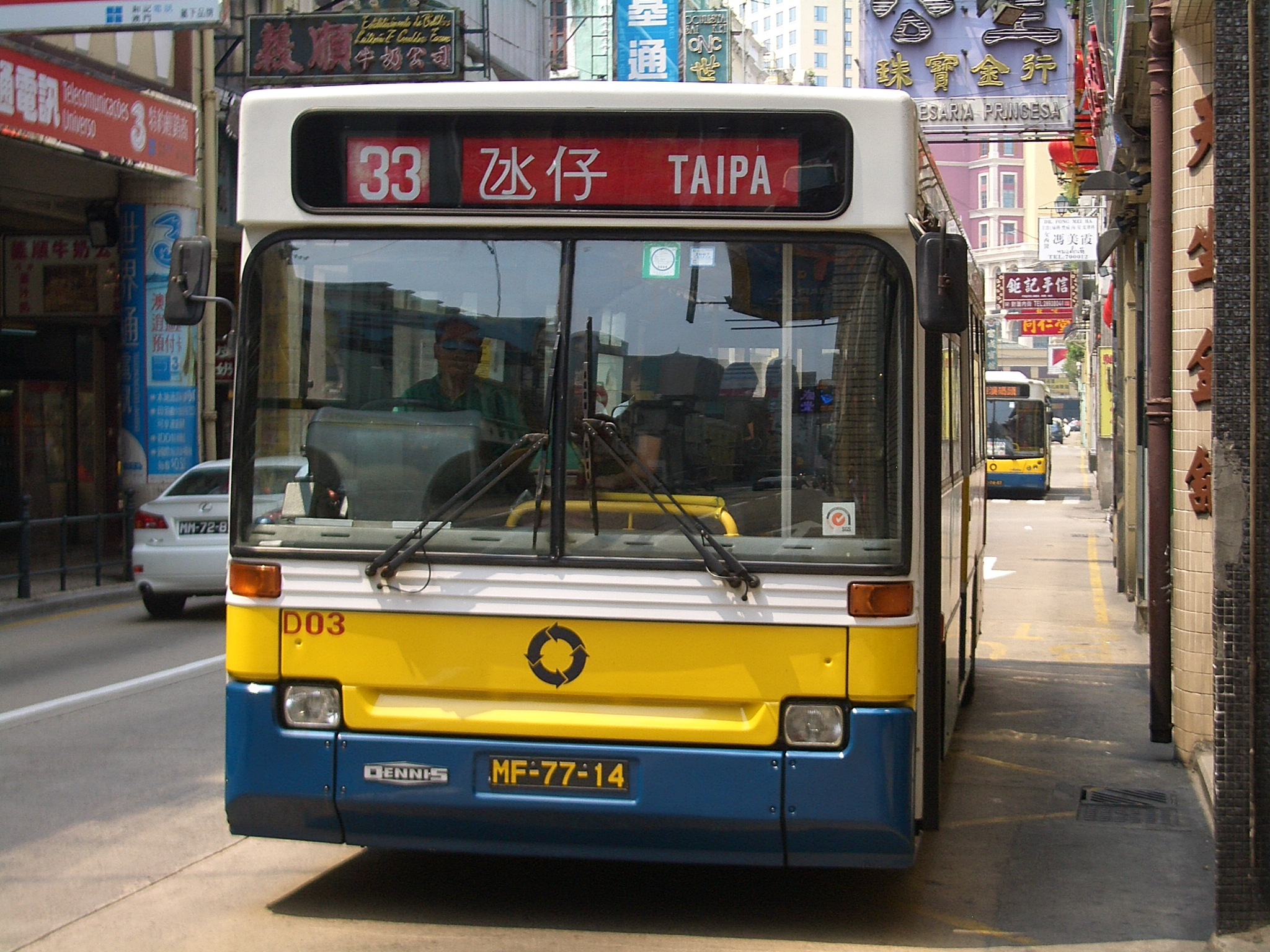 A Macau city bus